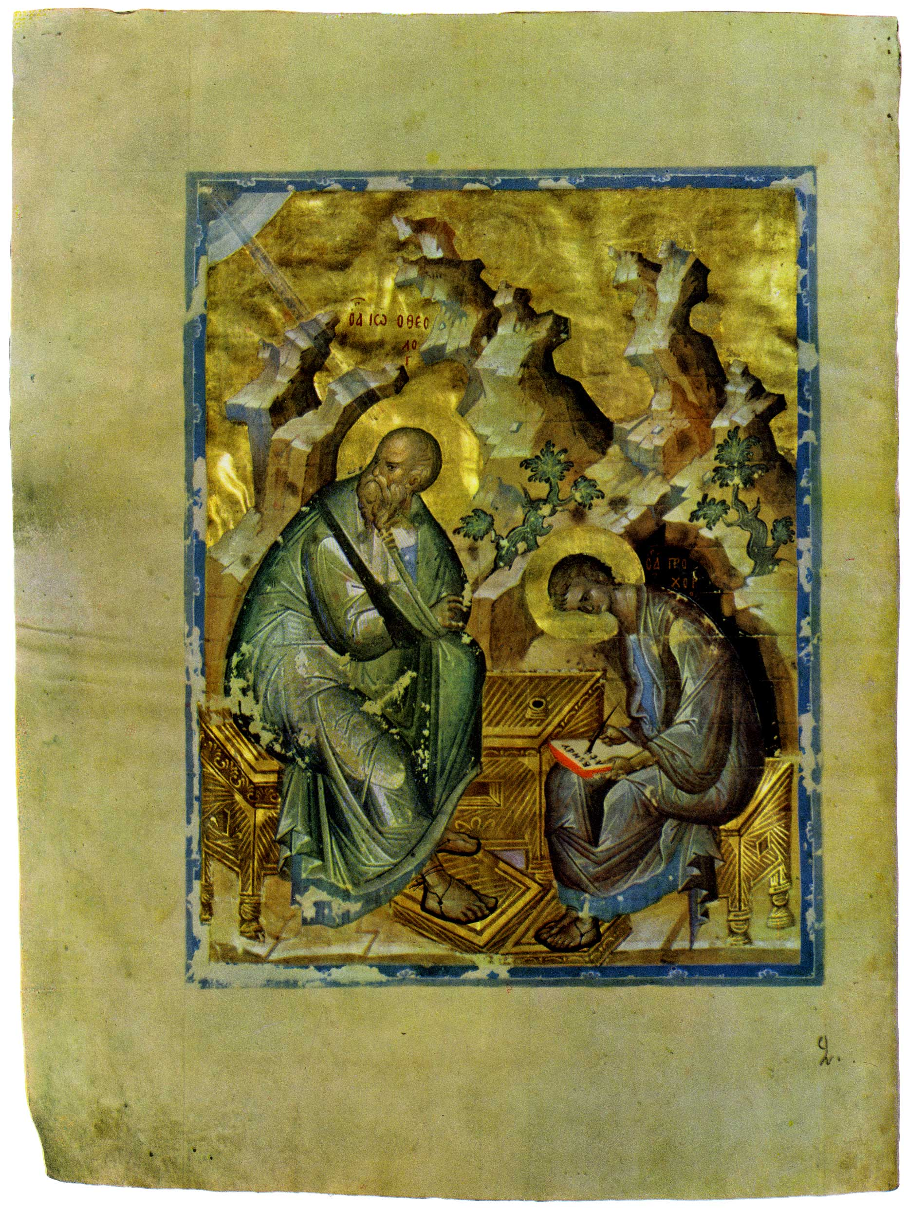 Khitrovo Gospels